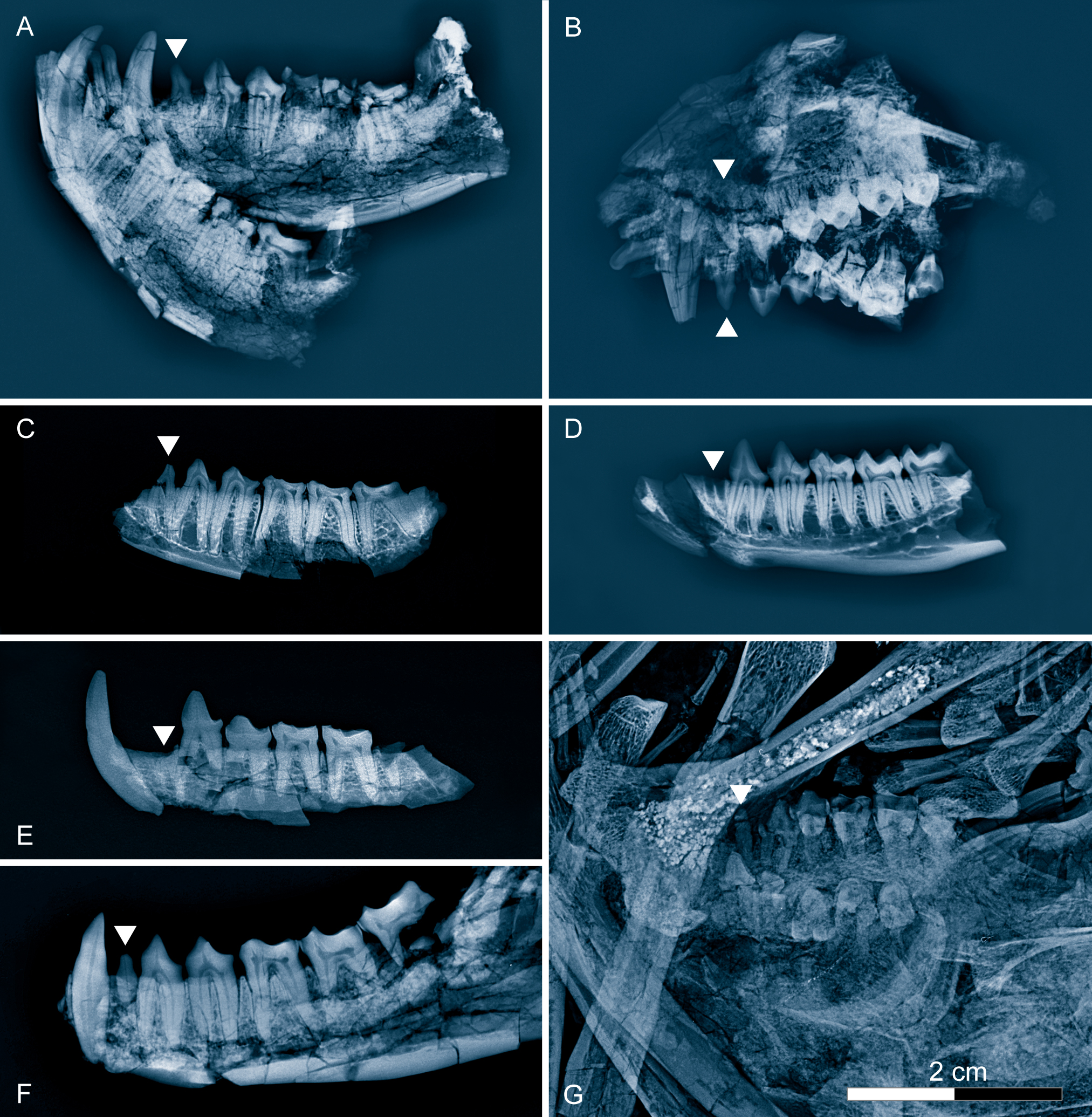 Radiographic comparison of middle Eocene primates from Geiseltal in eastern Germany. (A)— Europolemur klatti (Weigelt, 1933), GMH CeIV-3656, left and right mandible with I1–2, C1, P2-M3d and I1–2, C1, P3-M3s. (B)— Europolemur klatti (Weigelt, 1933), GMH LeoI-4233, part of the skull with upper dentition, which is part of the holotype. (C)— Europolemur klatti (Weigelt, 1933), GMH XXXVII-120, fragmentary left mandible with double-rooted P2, P3–4, and heavily worn M1–3. (D)— Europolemur klatti (Weigelt, 1933), GMH XXII-1, right mandibular ramus with P3-M3 and alveoli for a double rooted P2. (E)— Protoadapis ignoratus (Thalmann, 1994), GMH XXII-549, part of type specimen, fragment of right mandible with C1, P3–4, M1, alveoli of P2 and M3 (mirrored). (F)— Protoadapis weigelti Gingerich, 1977, GMH XXII-624, right mandibular ramus with P3-M3, root of a small single-rooted P2 and alveolus of C1, which is isolated (mirrored). (G)— Godinotia neglecta (Thalmann, Haubold & Martin, 1989), holotype (GMH L-2), detail: palate containing M3-P3s and d, and the small unicuspid and one-rooted P2s. Arrows show the position of P2/P2. Geiseltal primates come from Middle Eocene zones MP12 and 13, slightly later in time than those from Messel (MP11). Godinotia neglecta, like Darwinius masillae, is distinguished from Europolemur klatti by the presence of small, straight, single-rooted P2.